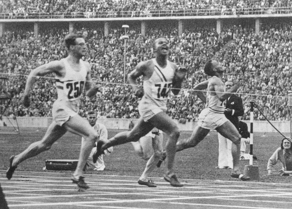 Godfrey Brown (left) of Great Britain, Archibald Williams (centre) of the USA and James Lu Valle (right) of the USA in a photo finish during the 400 metres event at the 1936 Olympic Games in Berlin. Williams won the gold, Brown the silver and Lu Valle the bronze medal.